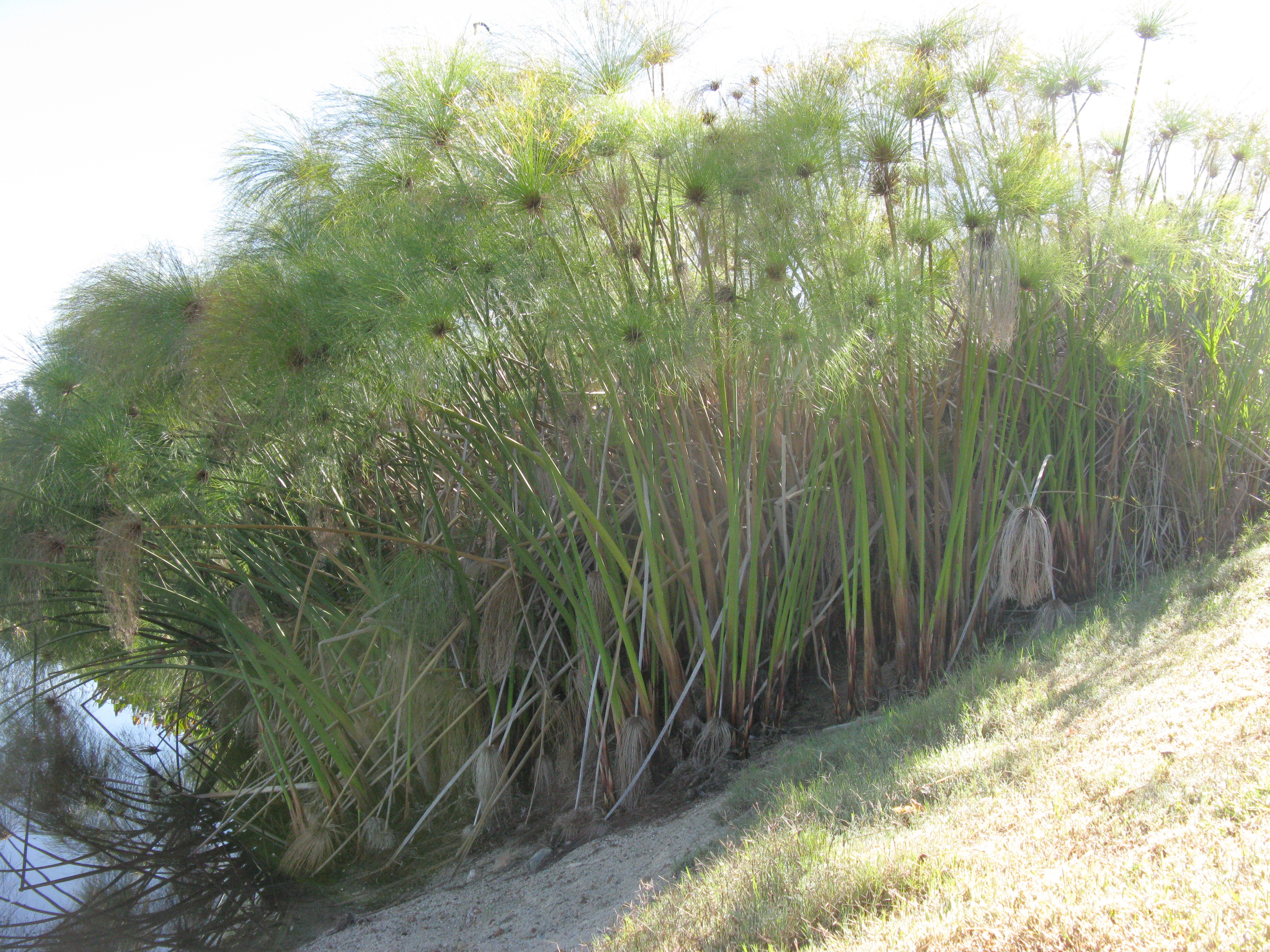 Cyperus species (possibly papyrus) growing on a dam wall from which the water has receded, exposing the bases of the scapes. between the bases, where they emerge from the rhizomes, and the top where the inflorescences are, there is just one smooth, bare internode